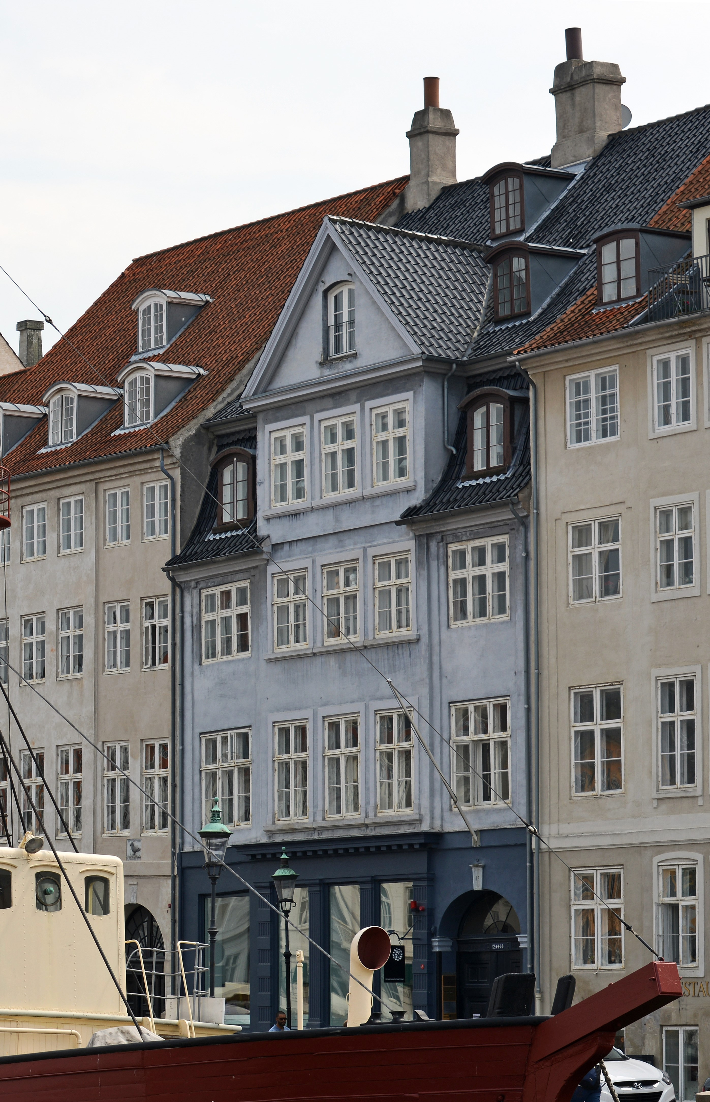 Nyhavn 12 in Copenhagen, Denmark lightvessel built in 1895, now serving as a museum ship in the Nyhavn Canal / Nyhavn is a colourful 17th century waterfront stretching from Kongens Nytorv to the harbourfront just south of the Royal Playhouse. It is lined by brightly coloured 17th and early 18th century townhouses .